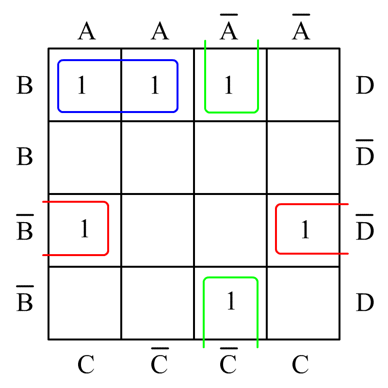 Karnaugh_map, with 4 variables